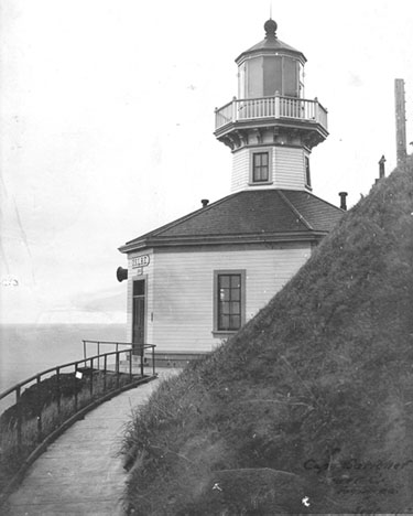 Public Domain statement here; Cape Sarichef Light is a lighthouse located on the northwest tip of Unimak Island, approximately 630 miles southwest of Anchorage, Alaska. The most westerly and most isolated lighthouse in North America.